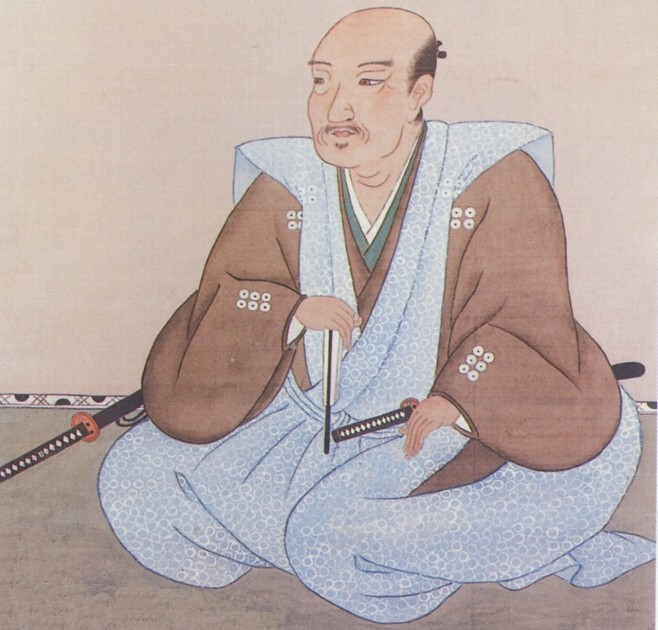 Portrait painting of Sanada (Nobushige/Yukimura)